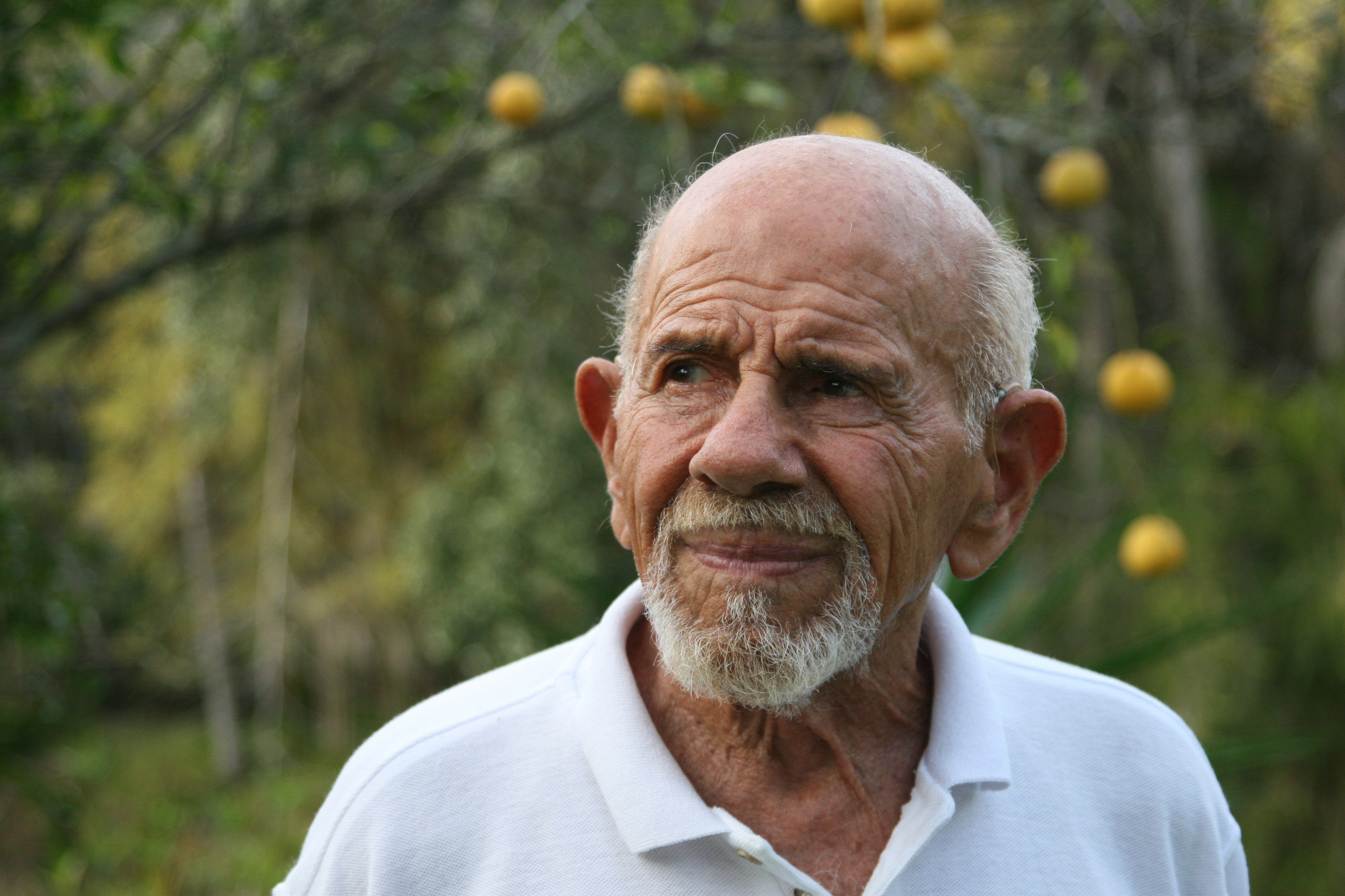 Picture of Jacque Fresco